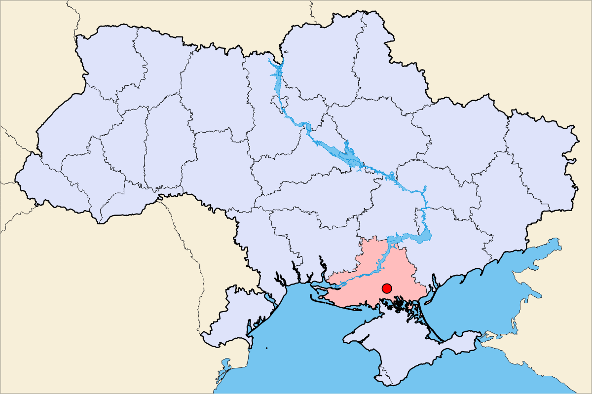 Description = Askania Nowa geographical position Source = own work, Skluesener Date = 22.01.2006 Author = Skluesener Credits = Colours chosen according to a map of steschke